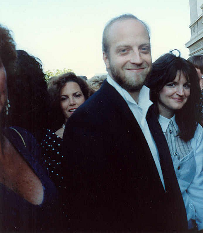 Photo taken at the 41st Emmy Awards 9/17/89 - Permission granted to copy, publish or post but please credit "photo by Alan Light" if you can